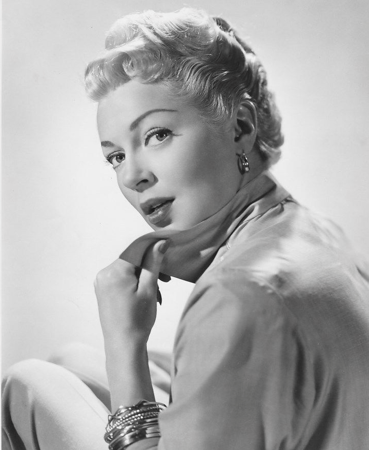 Portrait of Lana Turner in 1950